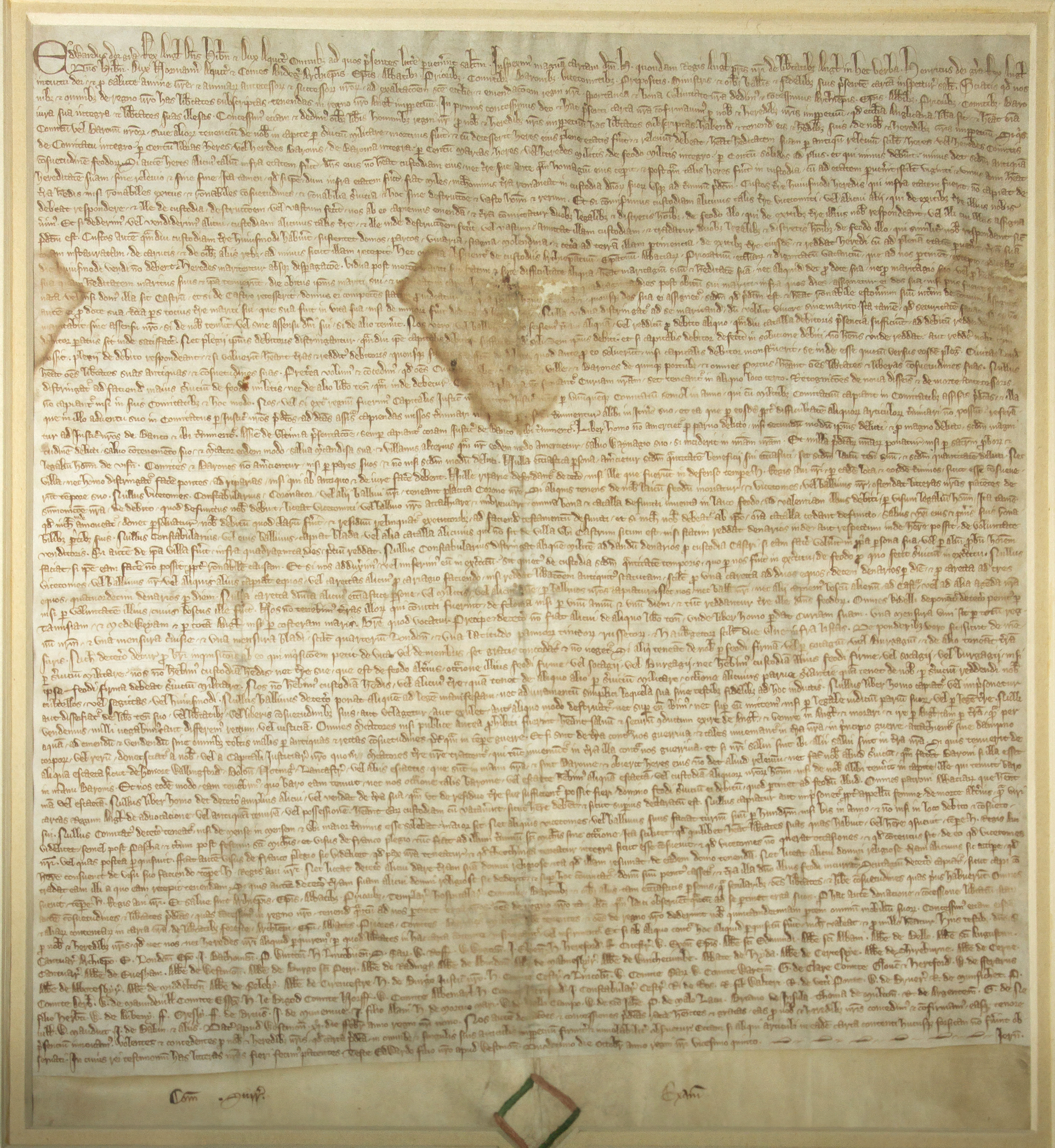 A 1297 copy of the Magna Carta which is on display in the Members' Hall of Parliament House, Canberra, Australia. It was purchased by the Government of Australia for £12,500 from the King's School, Bruton, in Somerset, England, UK.